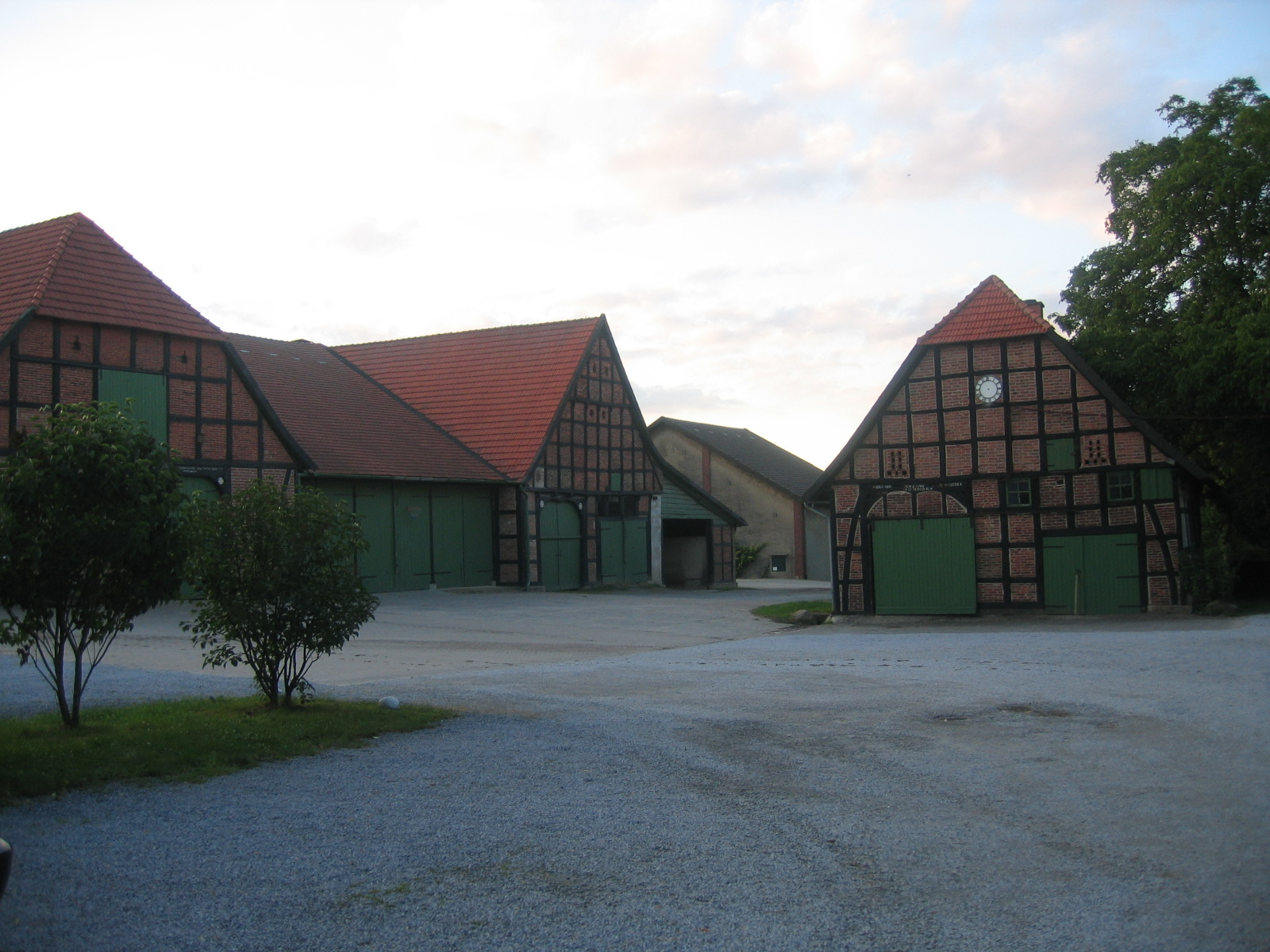 Oberbehme Castle in Kirchlengern, District of Herford, North Rhine-Westphalia, Germany.